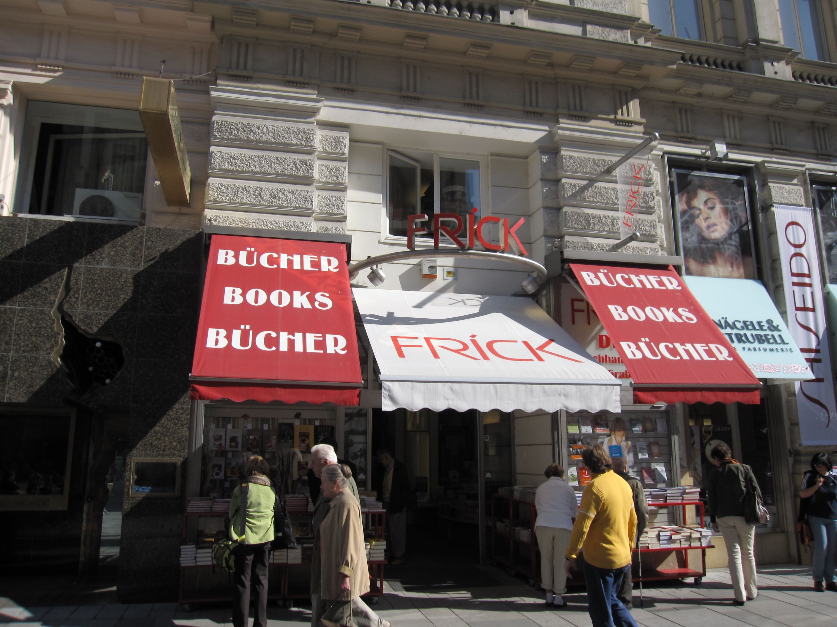 Wilhelm Frick Buchhandlung in Vienna's Graben street.